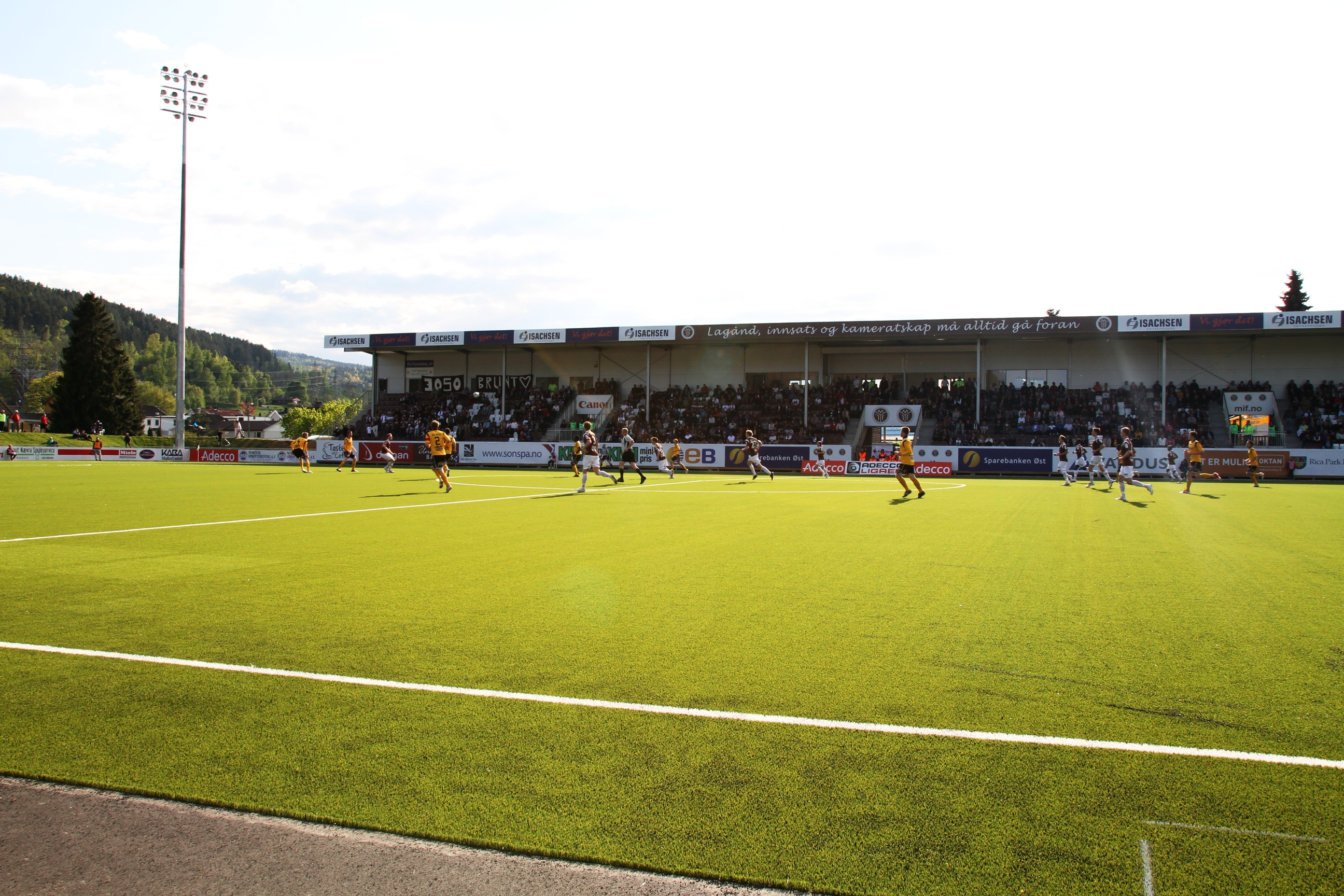 Mjøndalen Stadion (Norway) with match between Mjøndalen IF and IK Start. May 20, 2012.